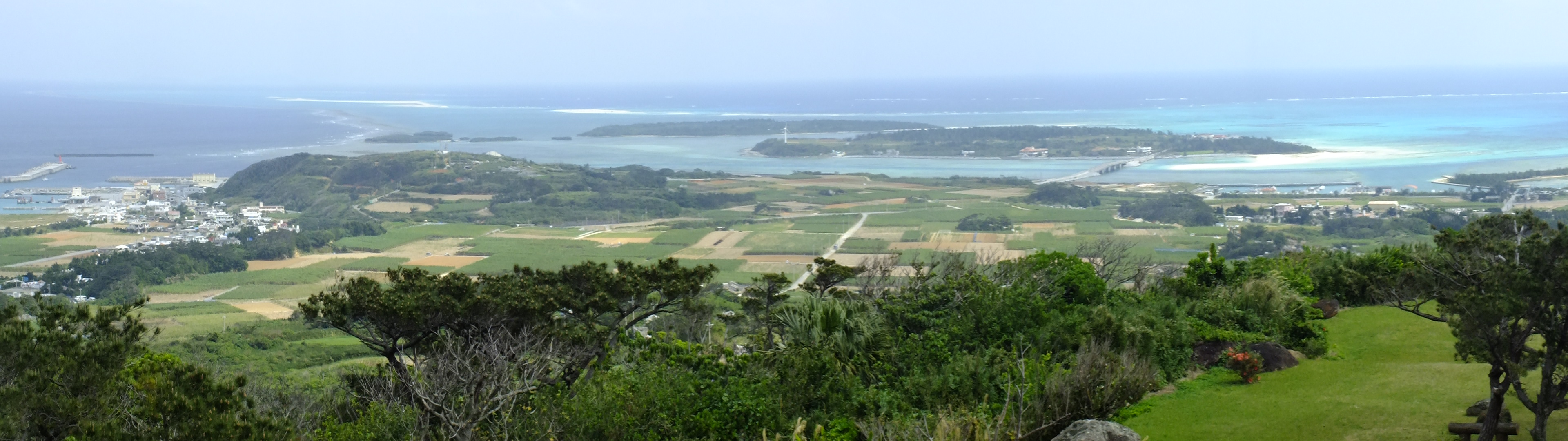 Ou Island, Ōha Island and Hate-no-hama Beach seen from Tounnaha-jō, Kumejima, Okinawa Prefecture, Japan.